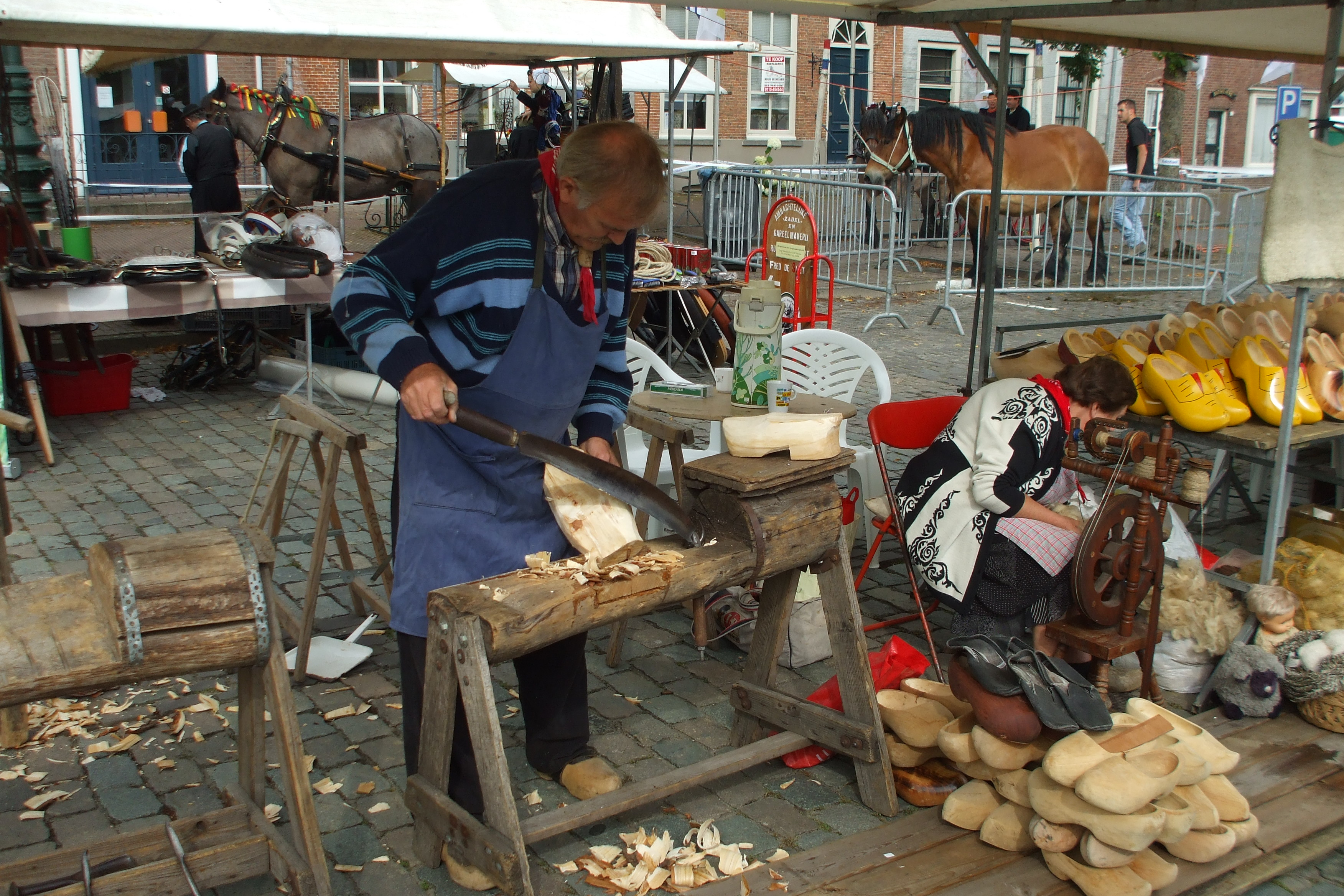 Maker of Dutch traditional wooden shoes